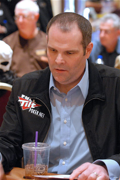 Howard Lederer at the SPCA charity poker tournament